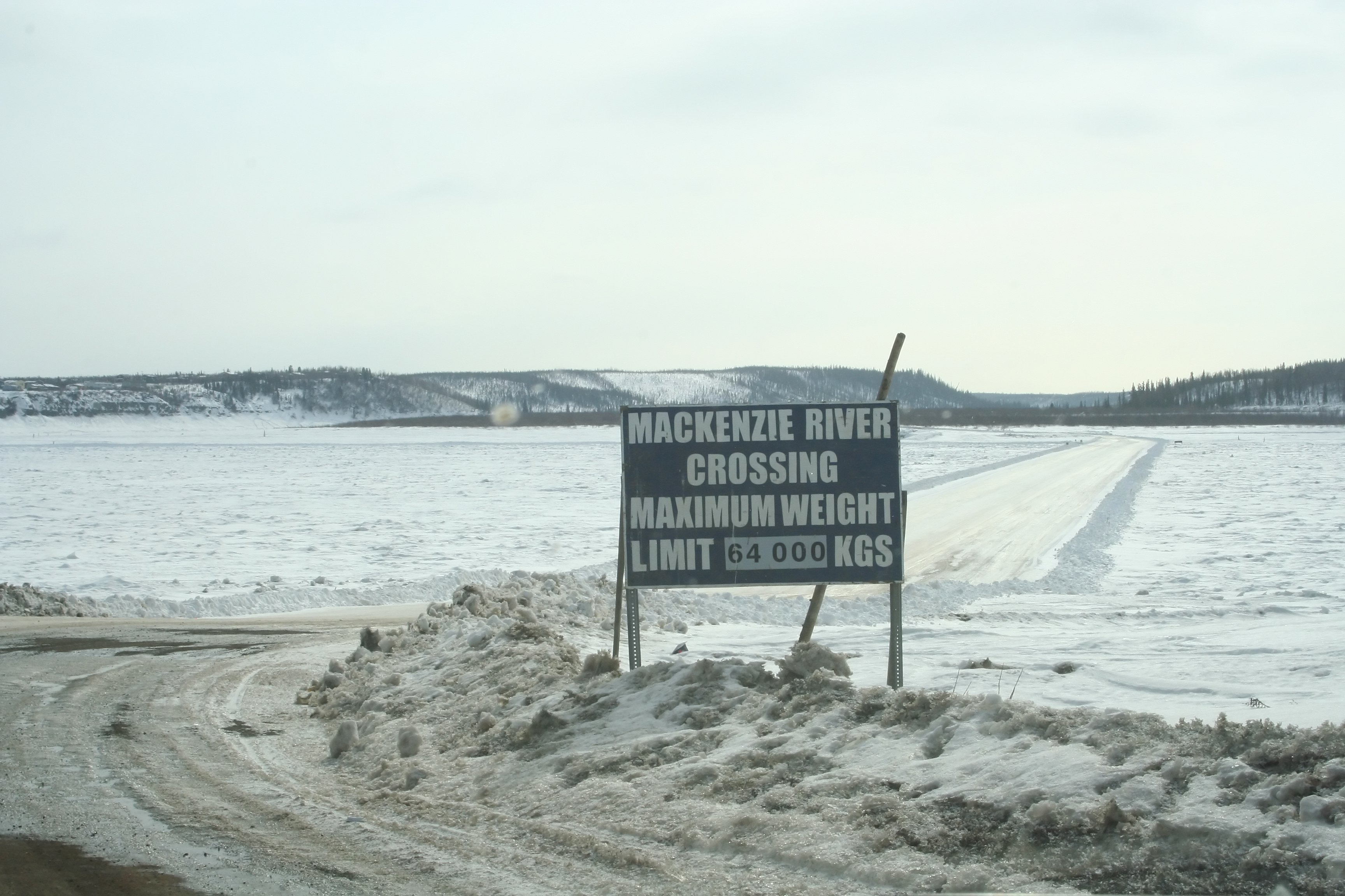 Ice road across the Mackenzie, at Tsiigehtchic, Northwest Territories.